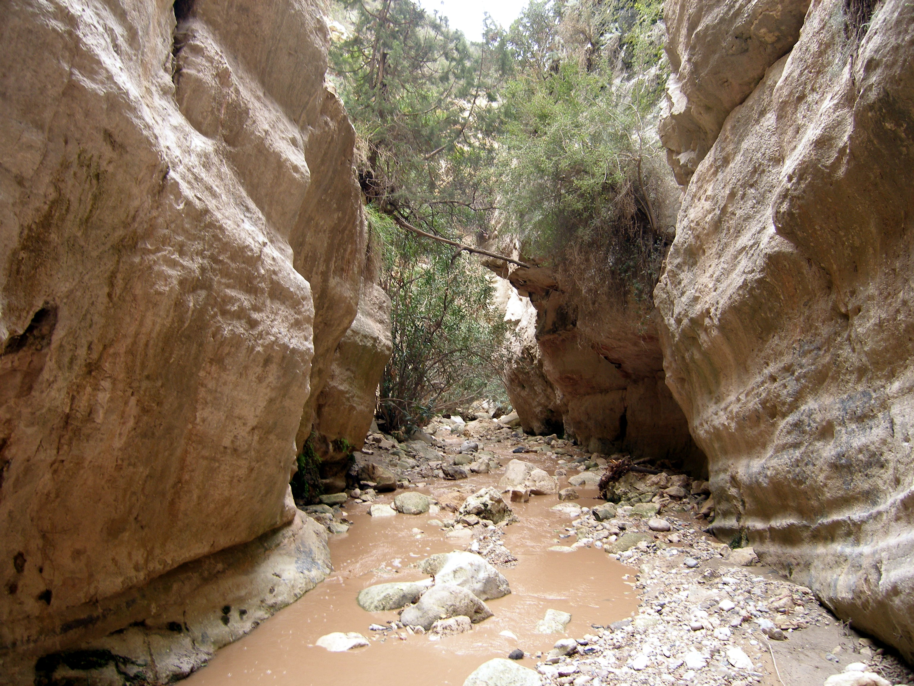 Avakas Gorge, Cyprus.